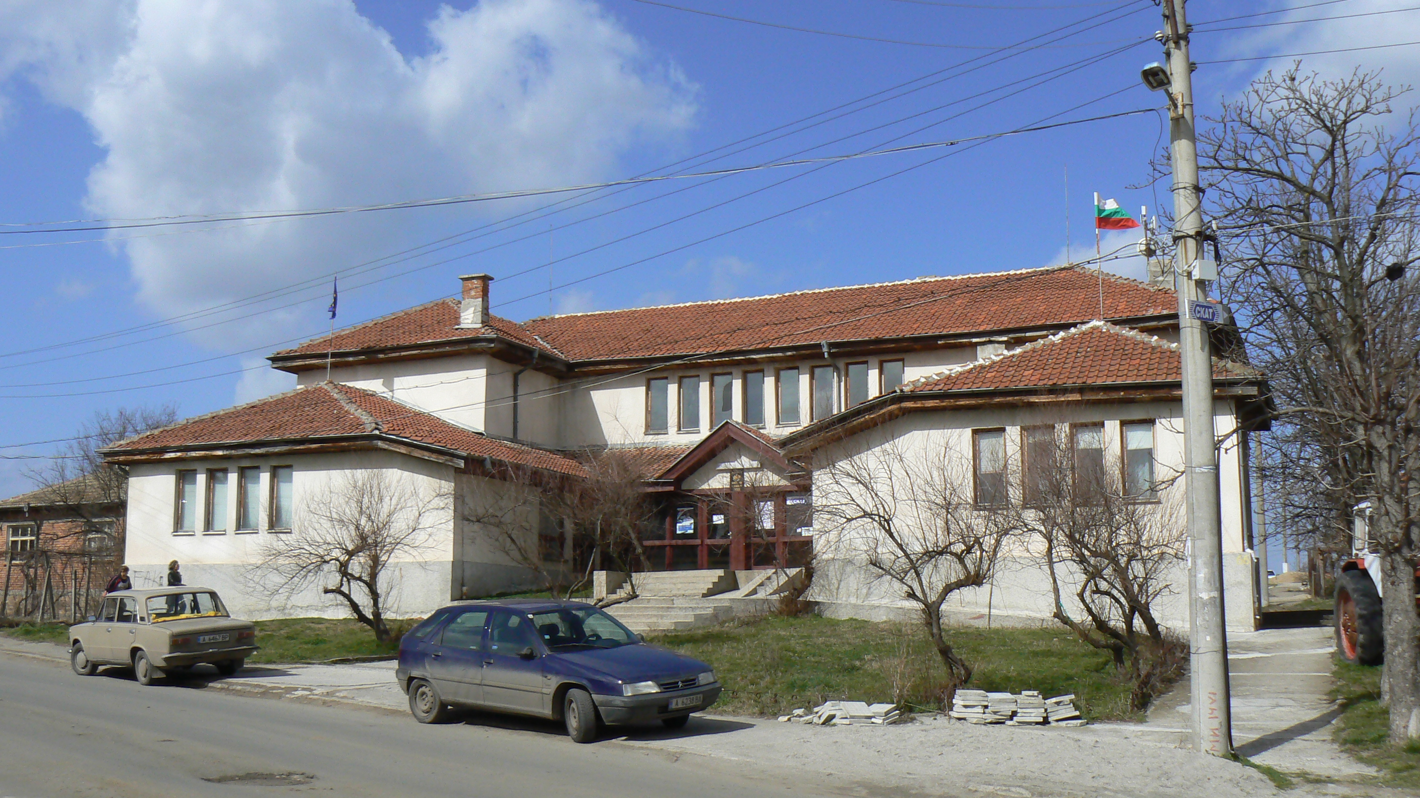 The mayors office of village Debelt, Burgas District, Bulgaria